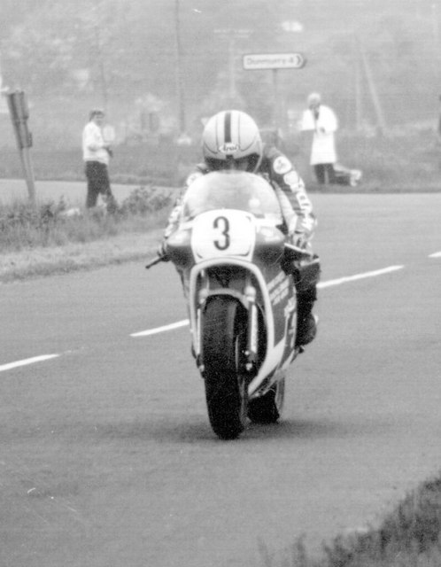 Joey Dunlop, champion motorcycle racer exits the hairpin during the 1982 Ulster Grand Prix.